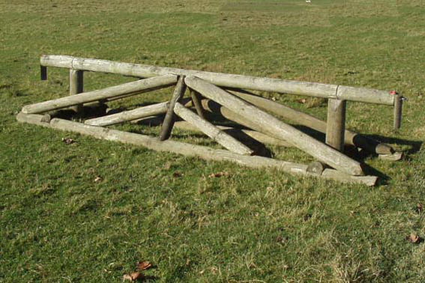 95cm Faux Trakehner mobile cross country jump